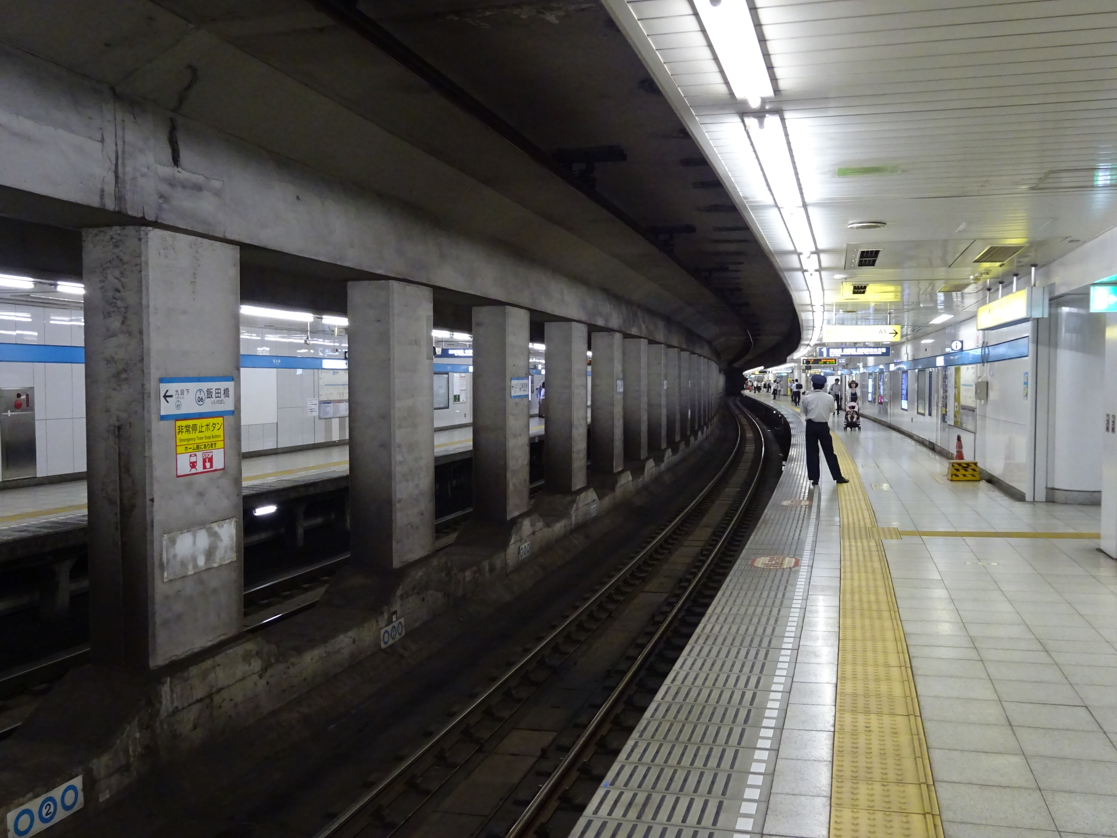 Platforms of Iidabashi Station(Tokyo Metro Tozai Line)